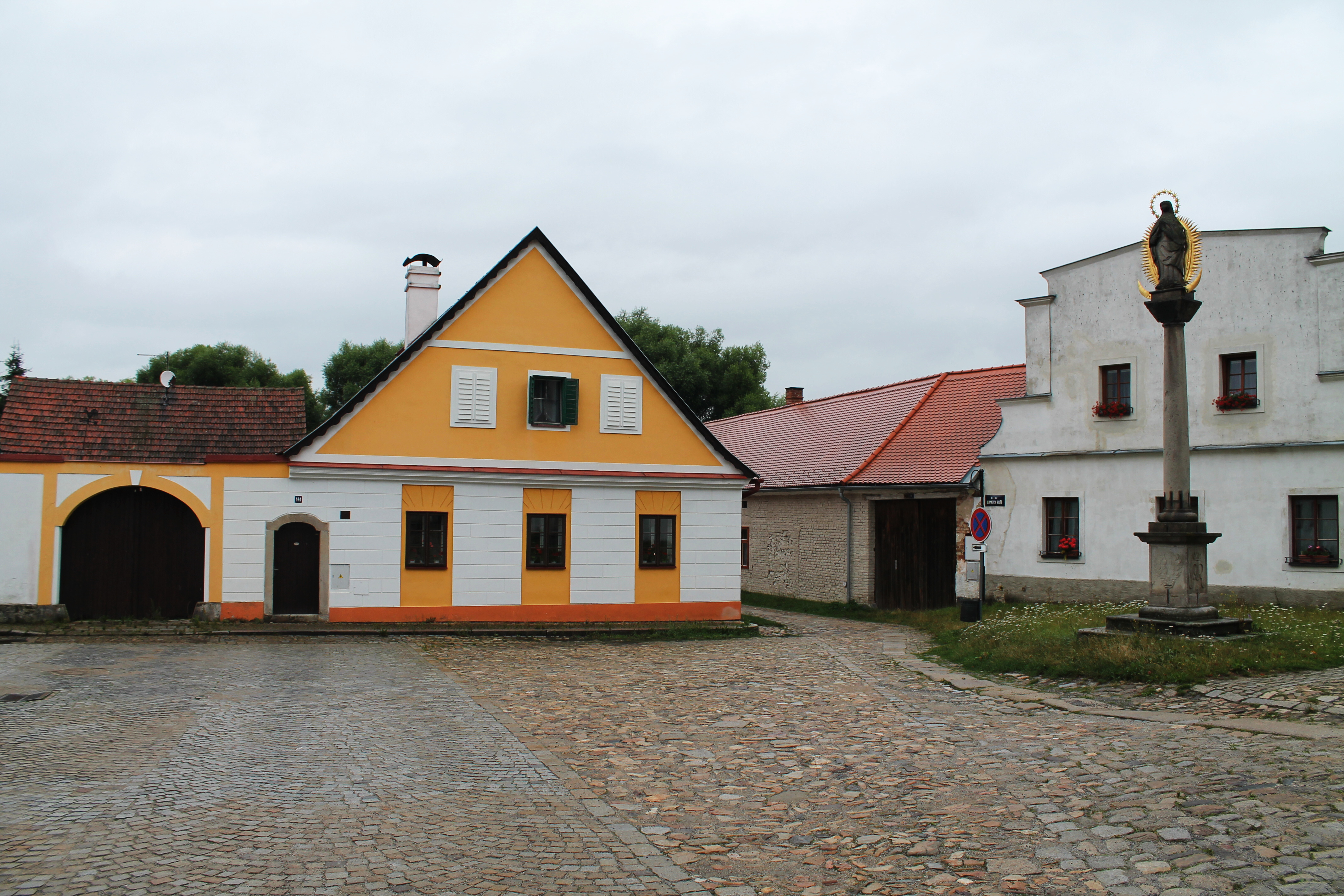 Staré Město, Telč, Jihlava District, Czech Republic